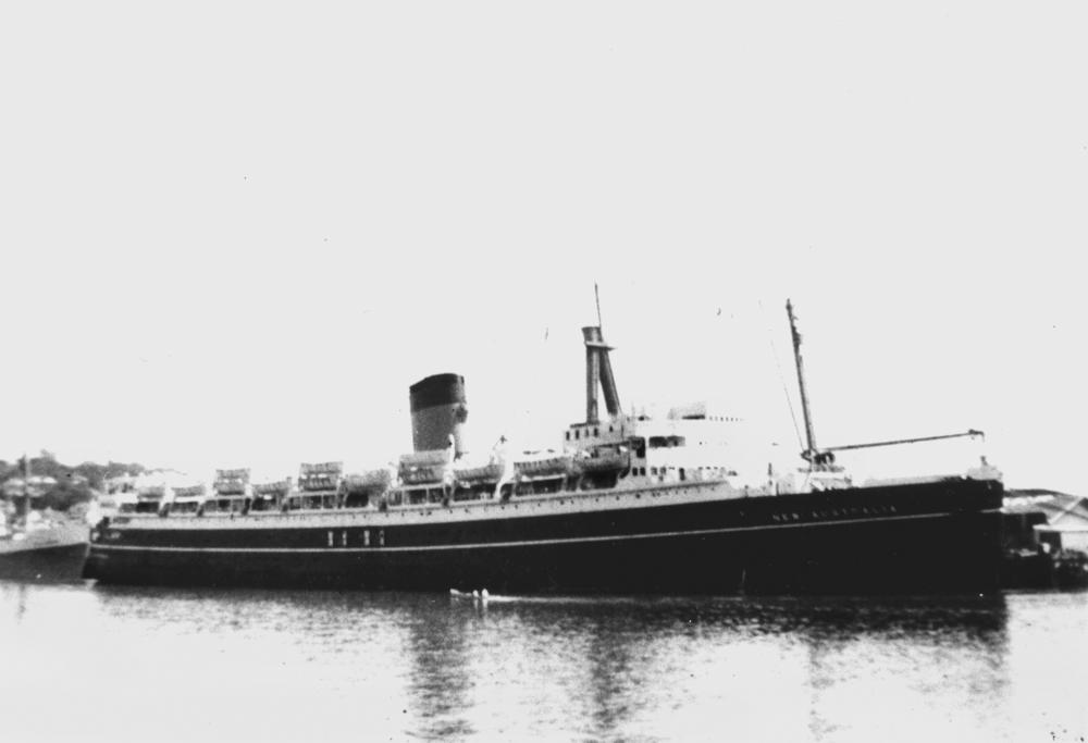 Passenger ship New Australia